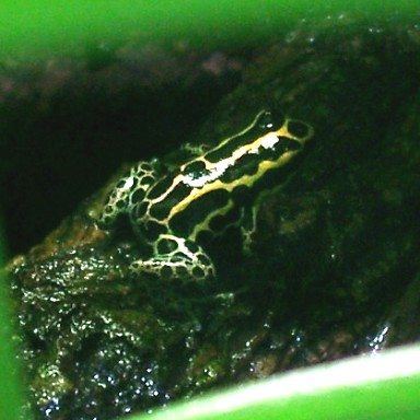 Subject: Dendrobates ventrimaculatus Author: Freetoast, selbst fotografiert